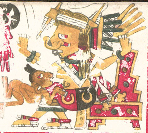 A drawing of Tlazolteotl, one of the deities described in the Codex Borgia